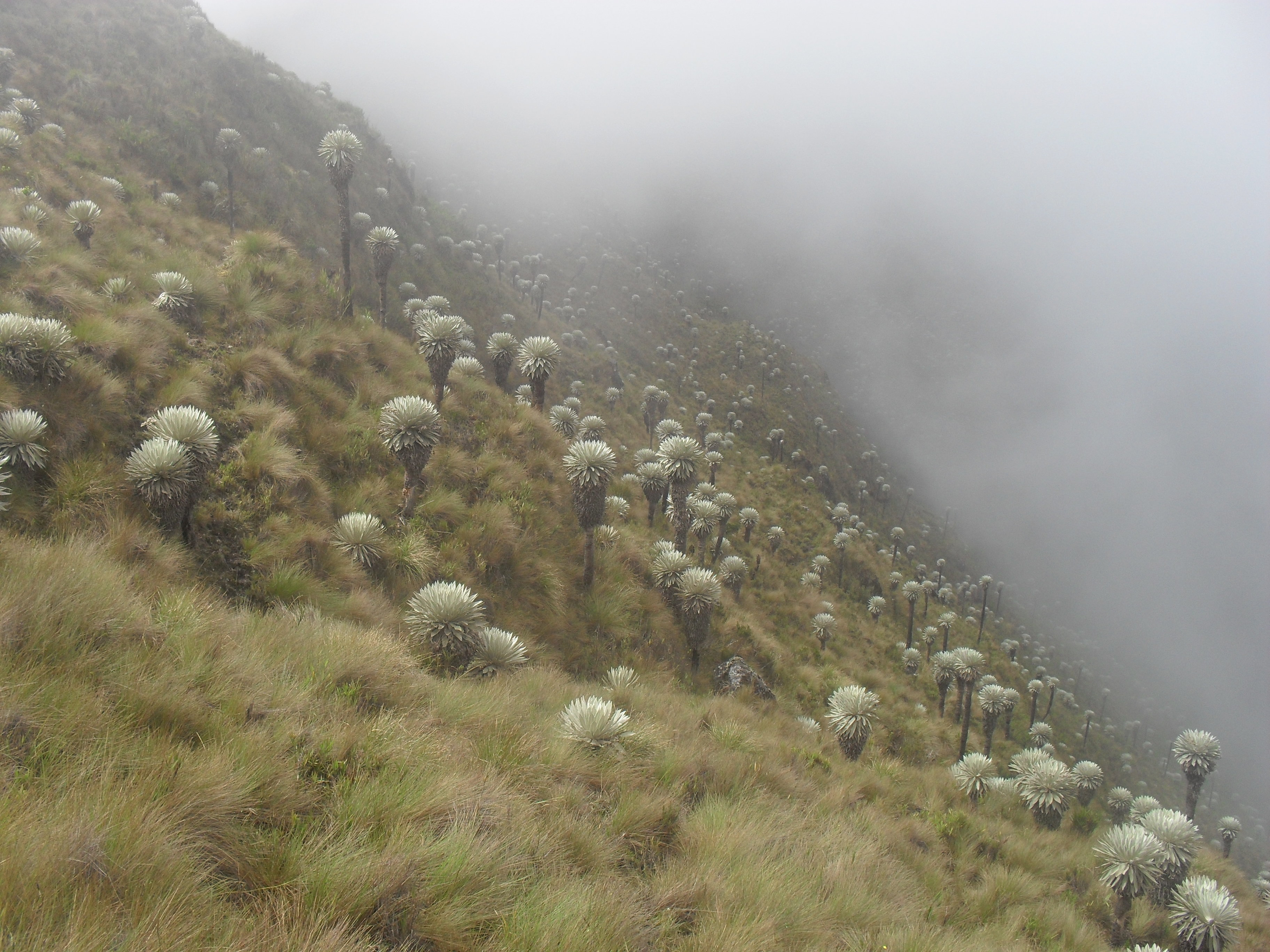 Frailejónes (Espeletia) in the Protected area "Sisavita", Norte de Santander, Colombia